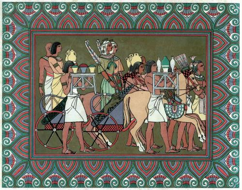 Illustration by Owen Jones from "The History of Joseph and His Brethren" (Day & Son, 1869). Scanned and archived at where it was marked as Public Domain. Text from Book: And there went up with him both chariots and horsemen. And it was a very great company. Genesis, C. L. V. 9.